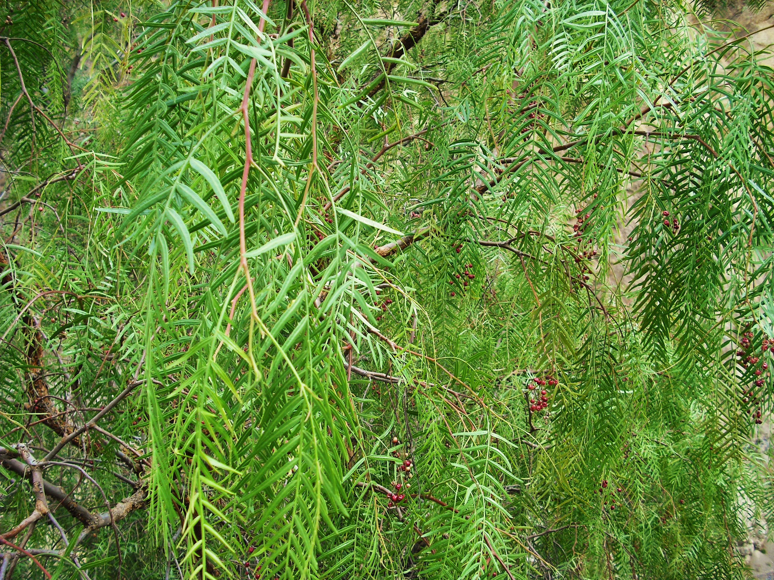 Schinus molle leaves, Colca Canyon, Arequipa, Peru